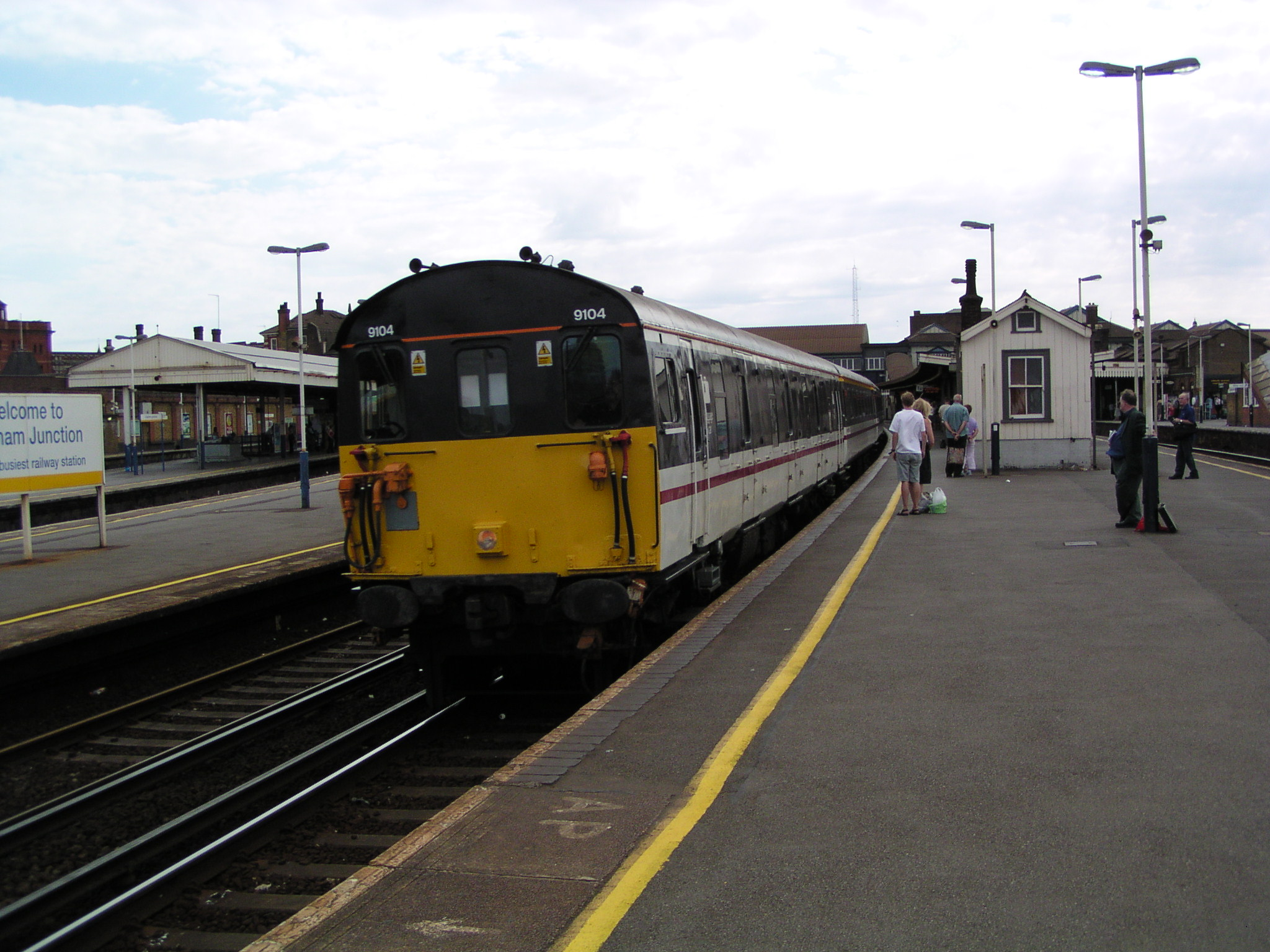 BR Class 489, no. 489104 at Clapham Junction on 19th July 2003. Image by Phil Scott (Our Phellap)